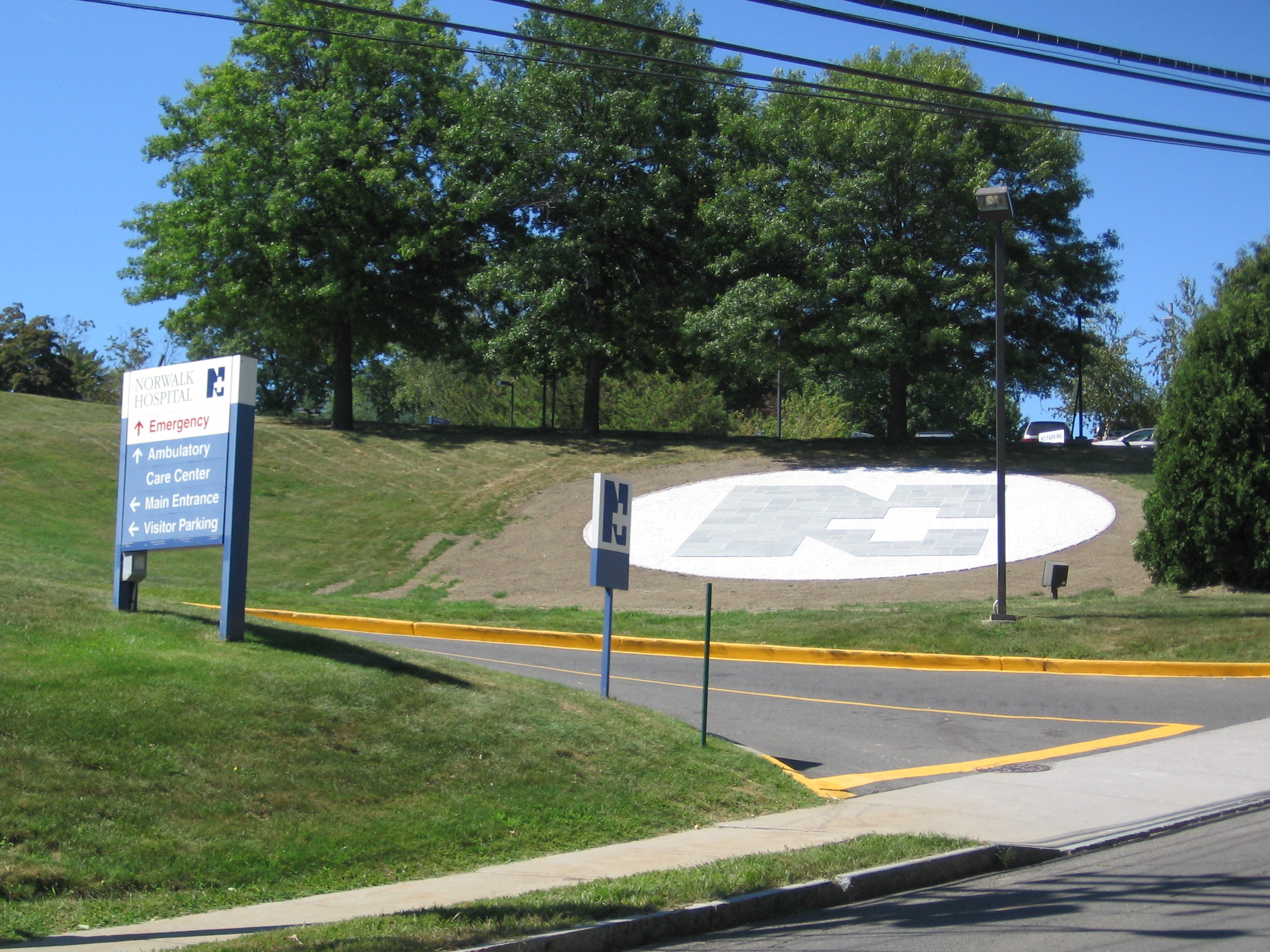 Entrance to Norwalk Hospital on Maple Street with large logo on nearby ground, Norwalk, Connecticut